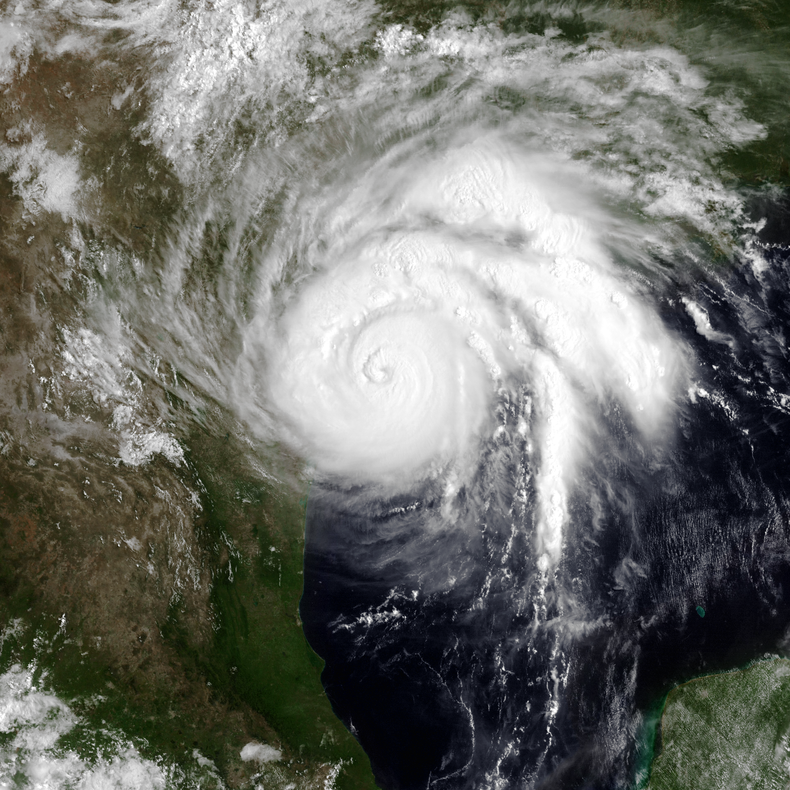 Hurricane Harvey intensifying on August 25, 2017